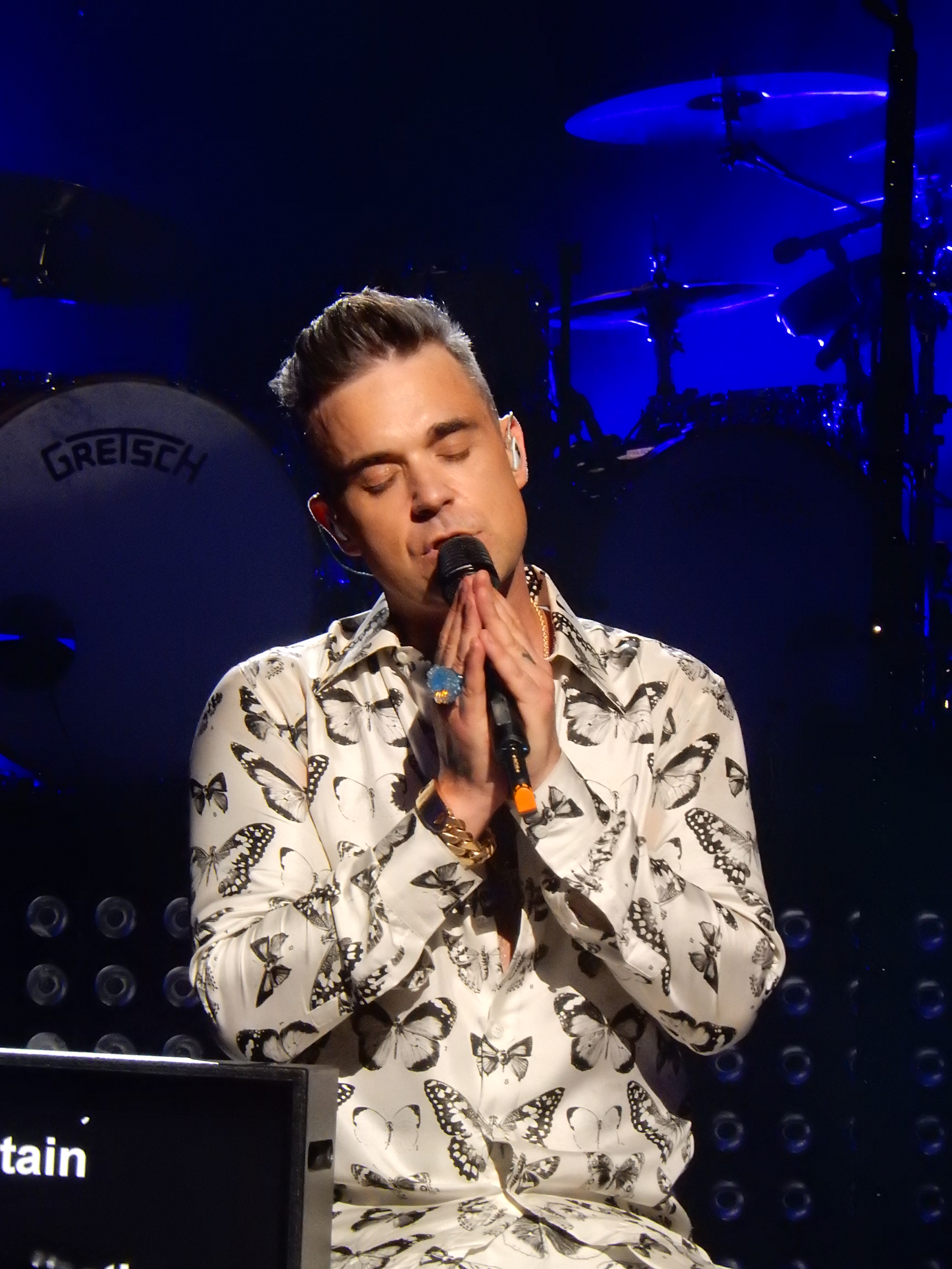 Robbie Williams, Roundhouse, London (Apple Music Festival)